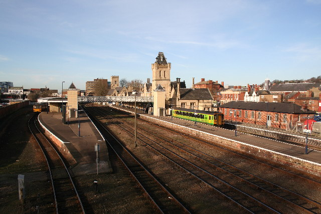 Lincoln Central Station.